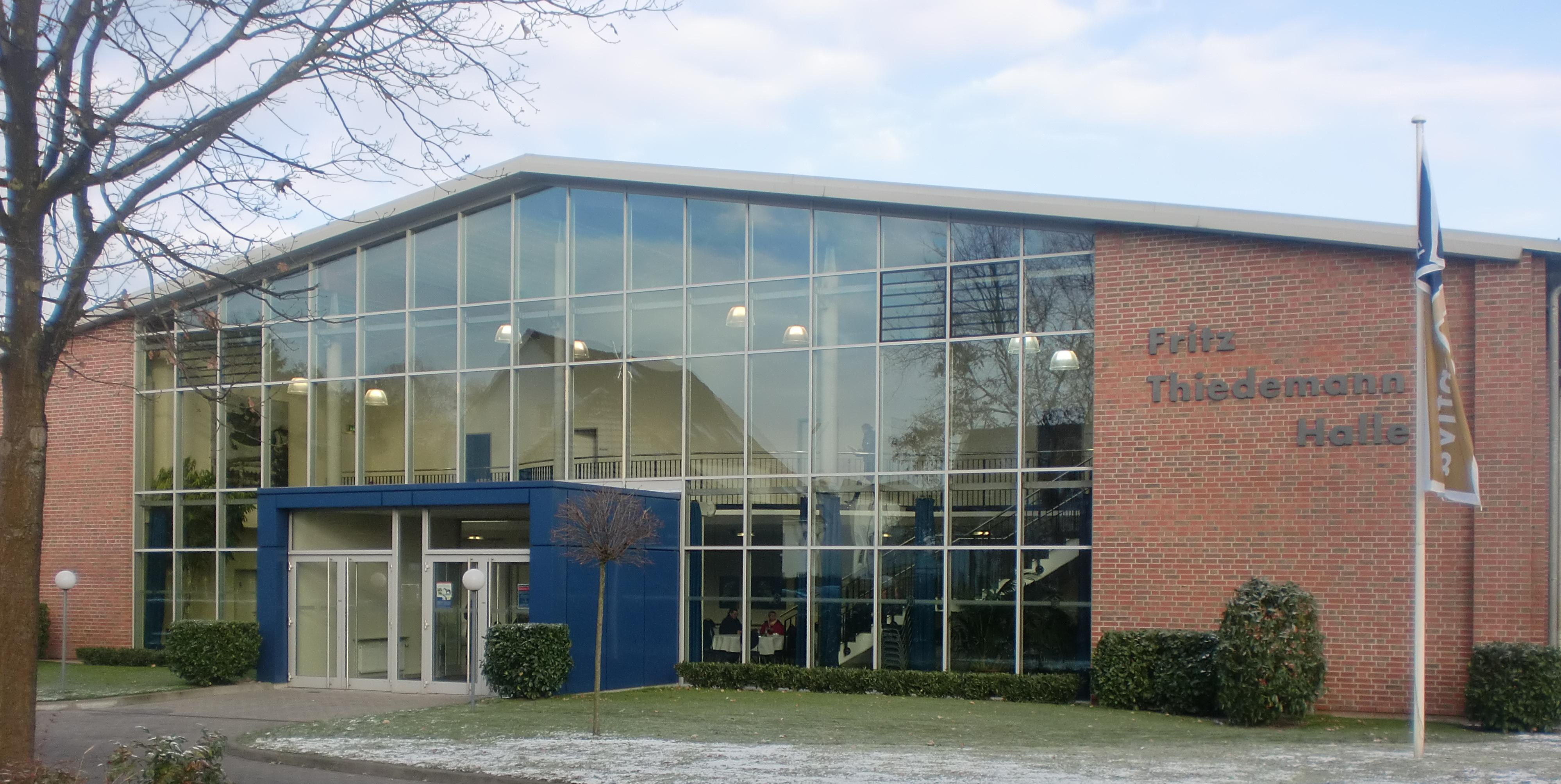 The 2005 opened Fritz-Thiedemann-Halle in Elmshorn. The hall is used for horse auction und other events of the association of the breeders of the Holsteiner Horse („Holsteiner Verband“).